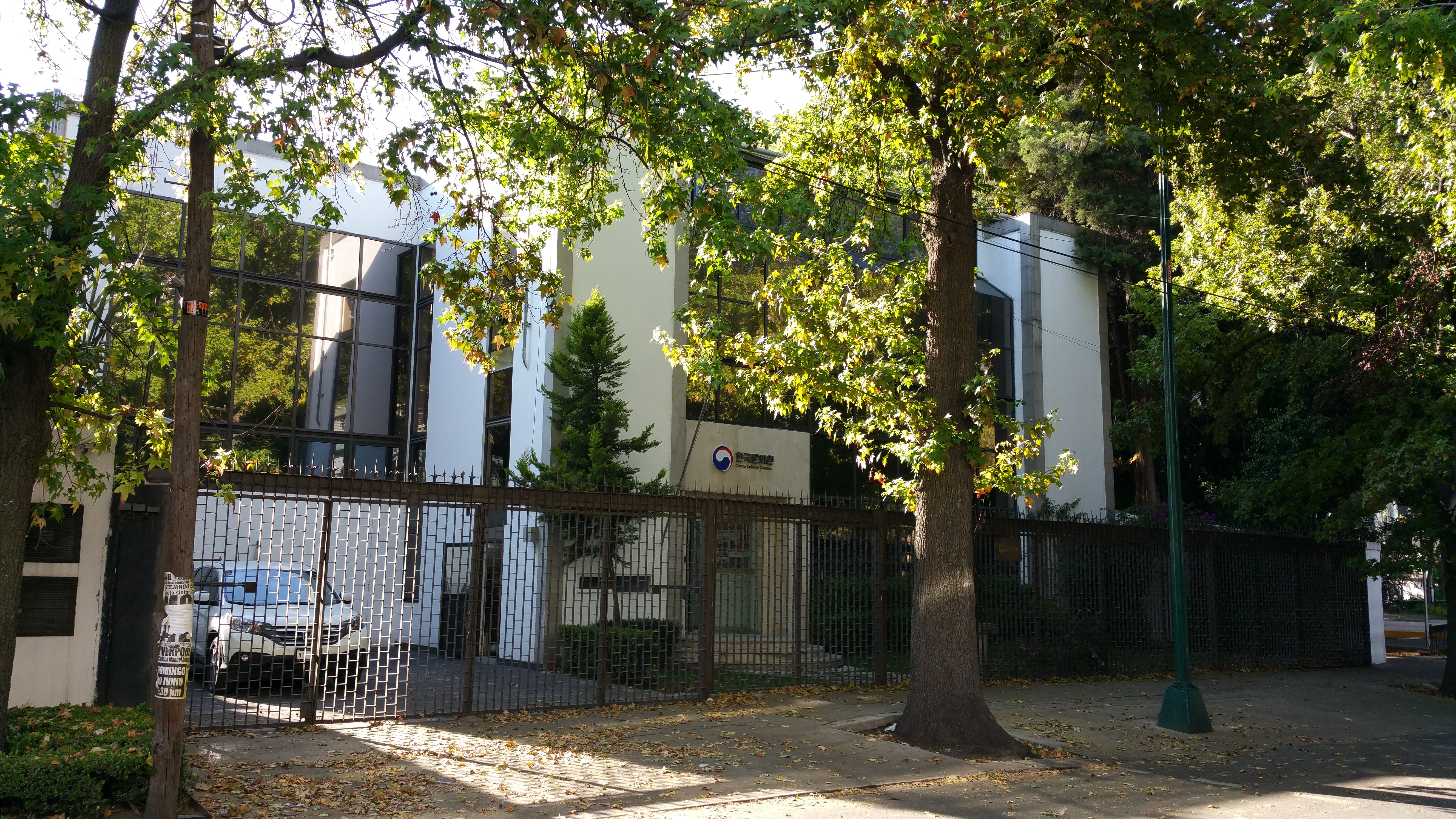 Centro Cultural Coreano, Temístocles 122, Polanco, Mexico City.